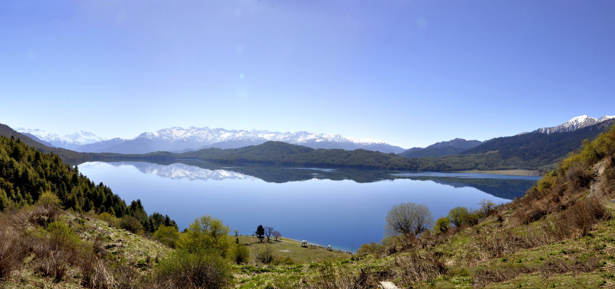 Panoramic view of Rara Lake in Mugu District